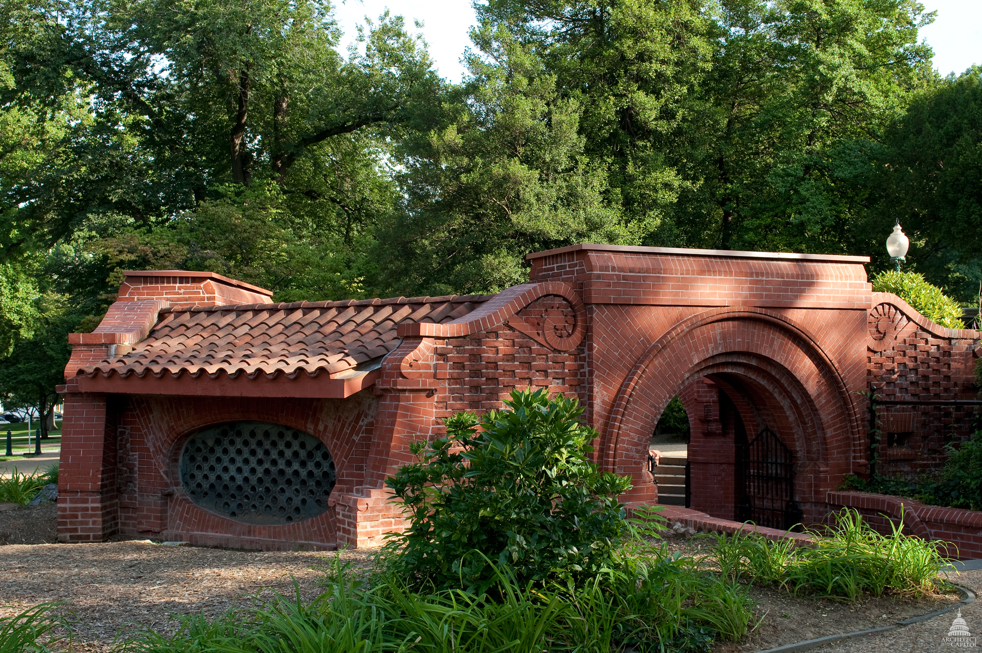 The Summerhouse, a brick structure set into the sloping hillside of the West Front lawn among the paths that lead from Pennsylvania Avenue to the Senate side of the Capitol, has offered rest and shelter to travelers for over a century. For more information on the Summerhouse visit: This official Architect of the Capitol photograph is being made available for educational, scholarly, news or personal purposes (not advertising or any other commercial use). When any of these images is used the photographic credit line should read “Architect of the Capitol.” These images may not be used in any way that would imply endorsement by the Architect of the Capitol or the United States Congress of a product, service or point of view. For more information visit